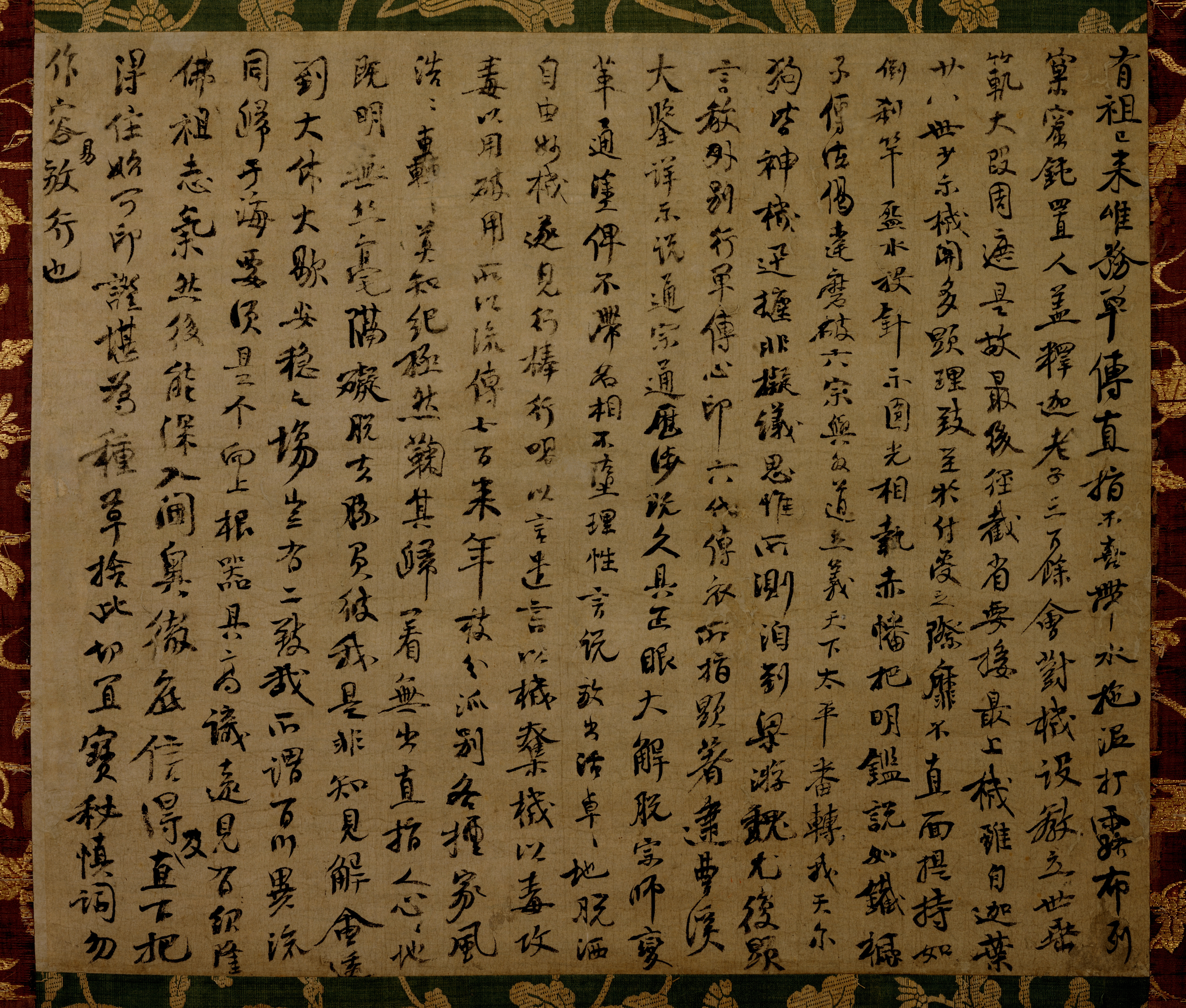 Certificate of Buddhist Spiritual Achievement (印可状, inkajō). First half of an enlightenment certificate given to Yuanwu's disciple Huqiu Shaolong in recognition of his spiritual achievement. Oldest extant document written by a Chan master. Also known as Floating Yuanwu (流れ圜悟, Nagare Engo). One hanging scroll, ink on paper, 43.9 × 52.4 cm (17.3 × 20.6 in). Located at the Tokyo National Museum, Tokyo.